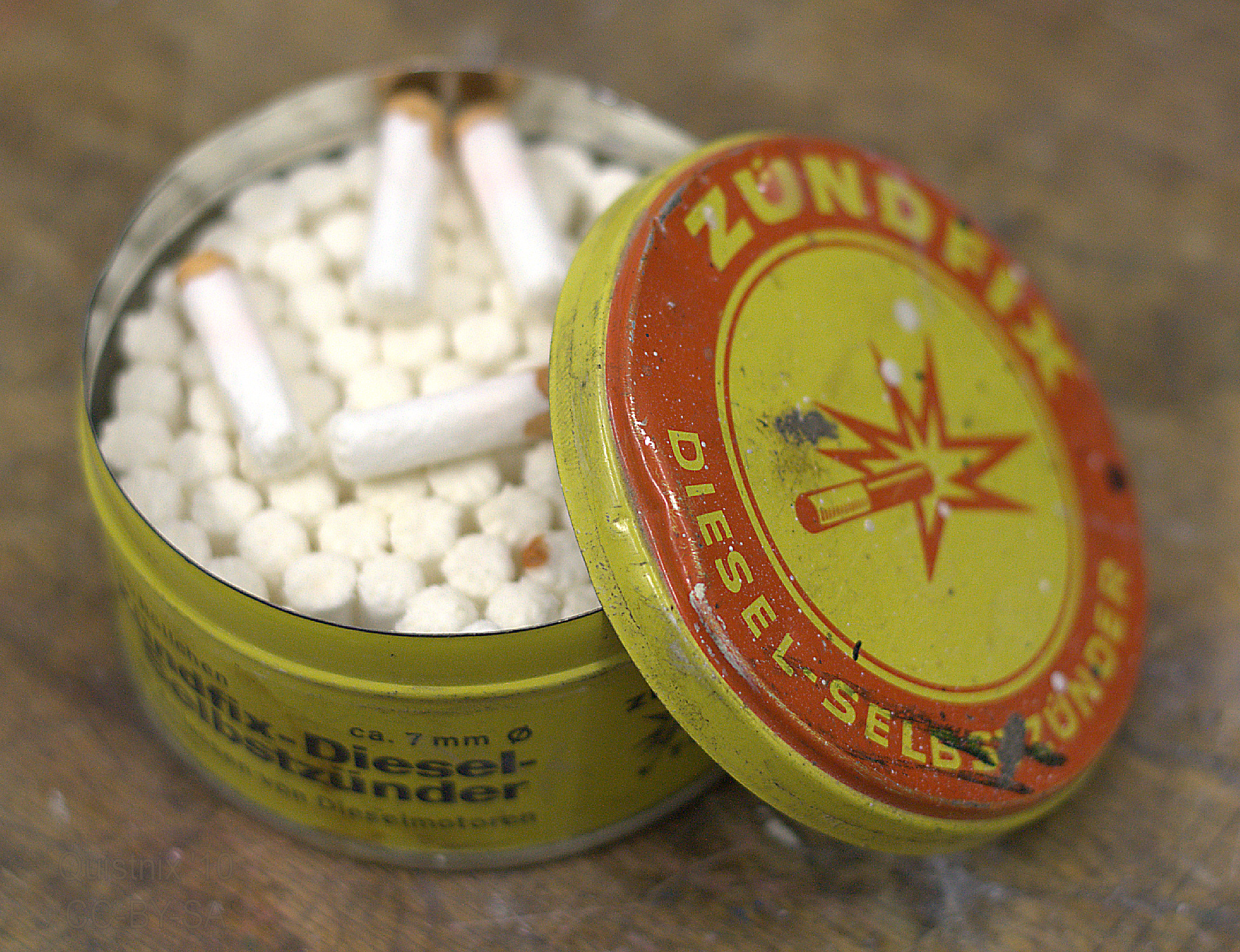 box of glow fuses to ignite old Diesel engines